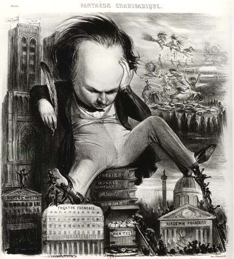 Caricature of Victor Hugo